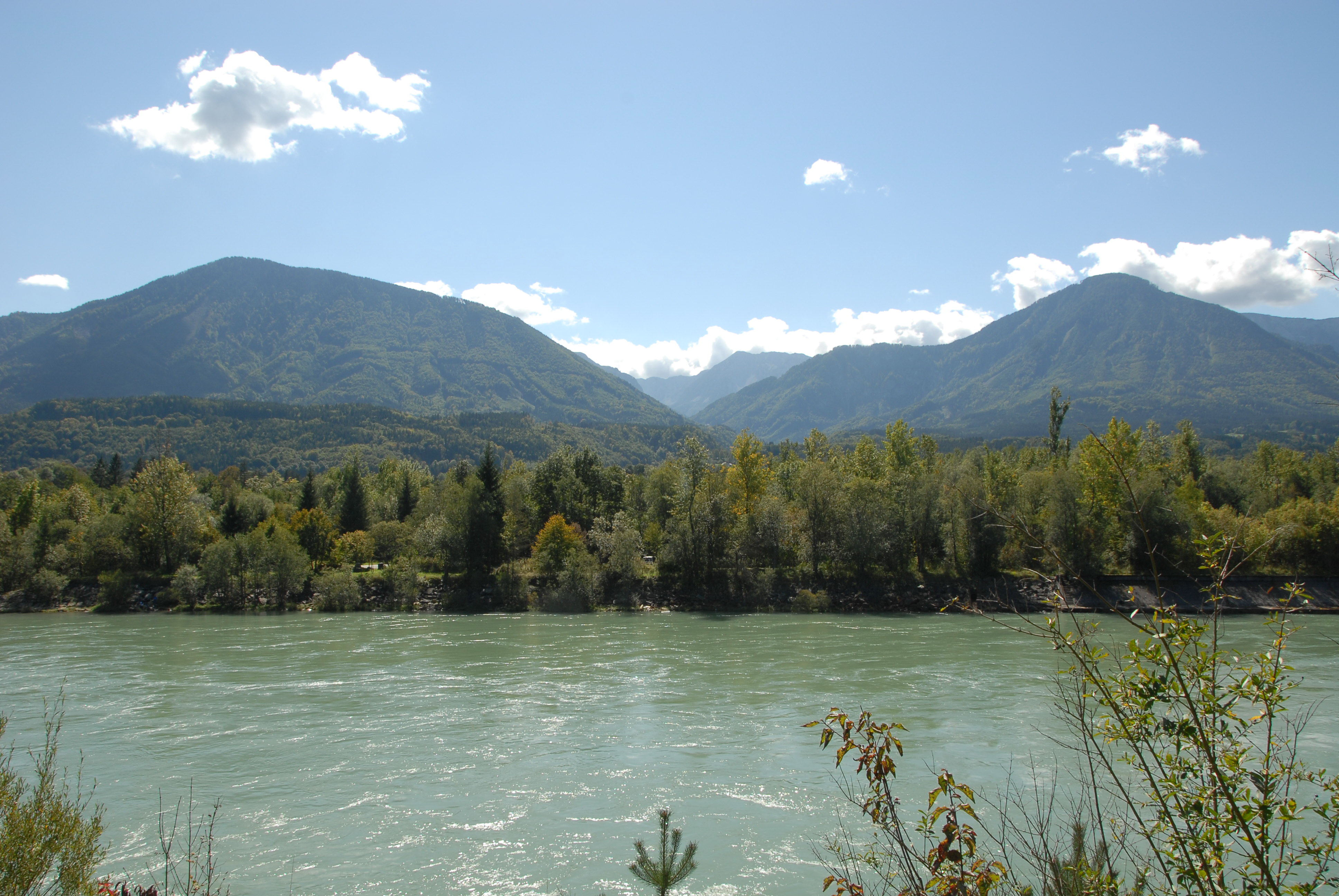 Sinacher Gupf (left) and Matschacher Gupf (right), the two mountains of the Karawanken, seen from Feistritz in the Rosental, in the foreground Carinthian´s main-river the Drau, district Klagenfurt Land, Carinthia, Austria